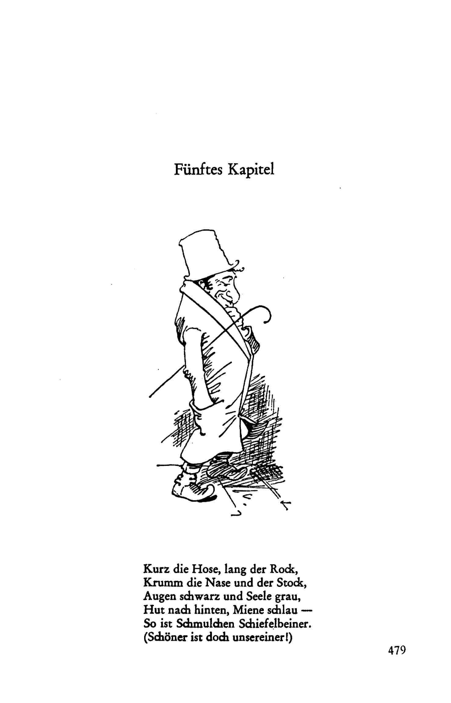 This is a scan of the historical document